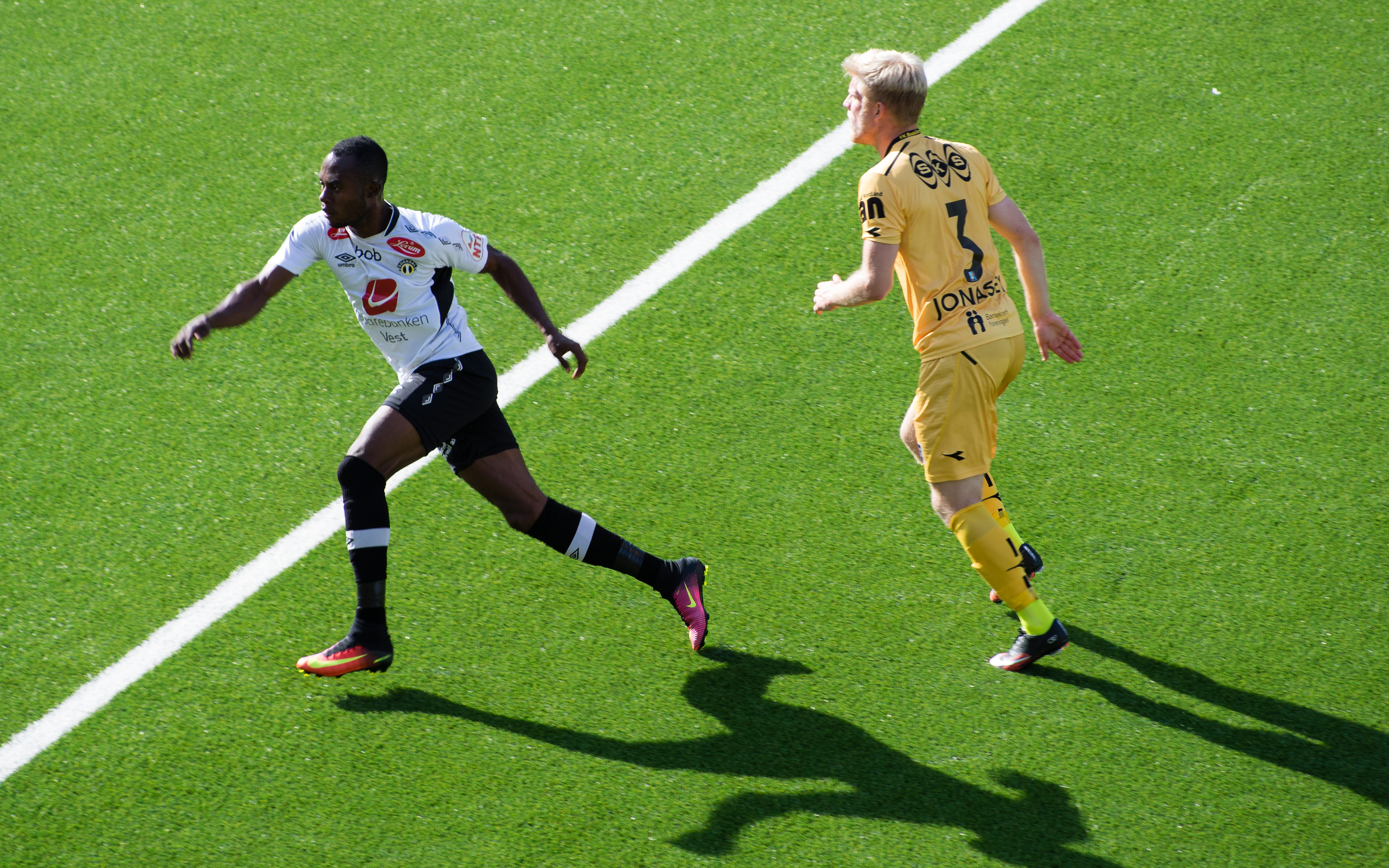 Gilbert Koomson and Emil Jonassen Sætervik.